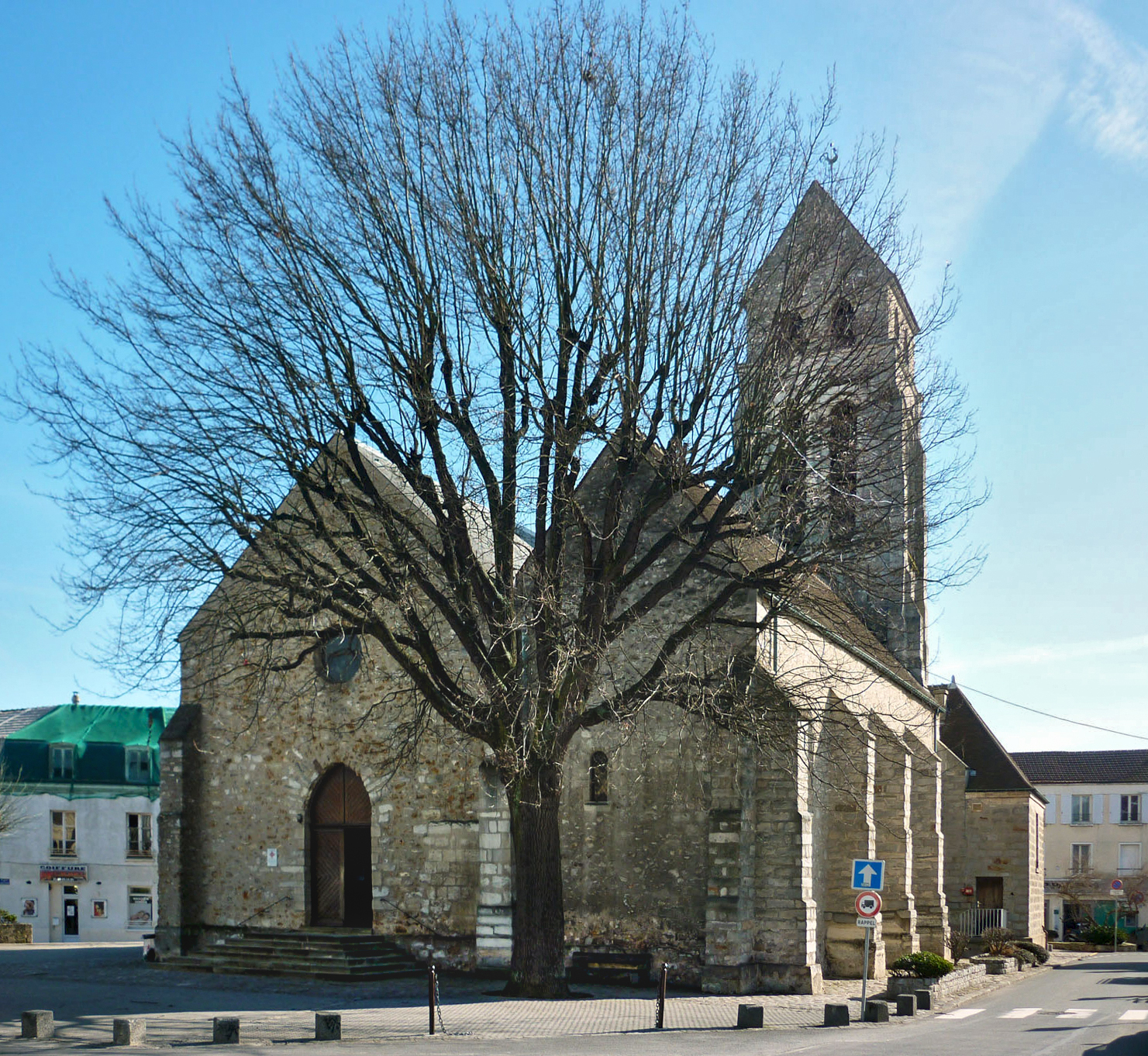 Église Saint-Denis of Wissous, France